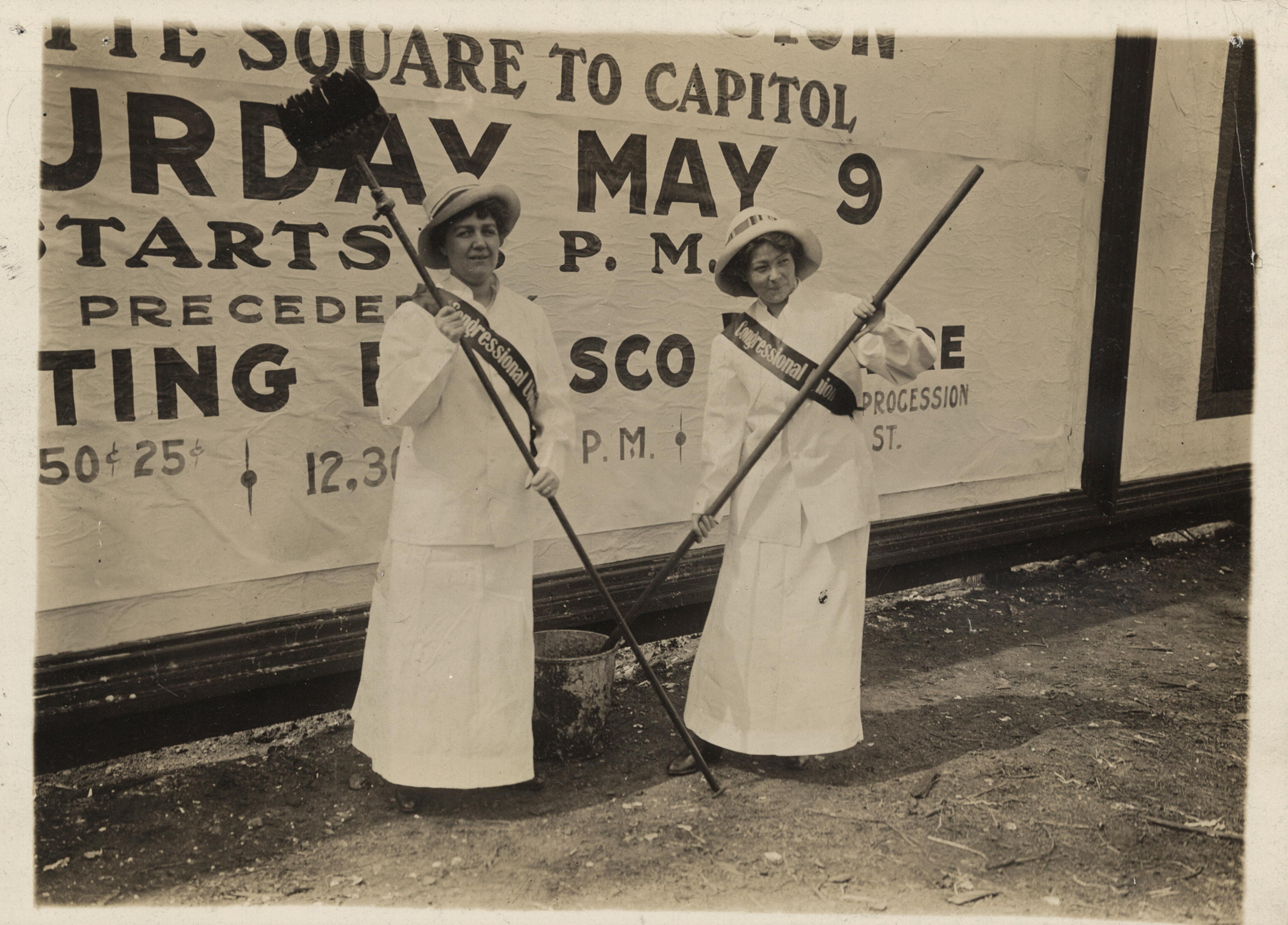 Summary: Photograph of two members of the Congressional Union for Woman Suffrage holding brushes in front of a large billboard.